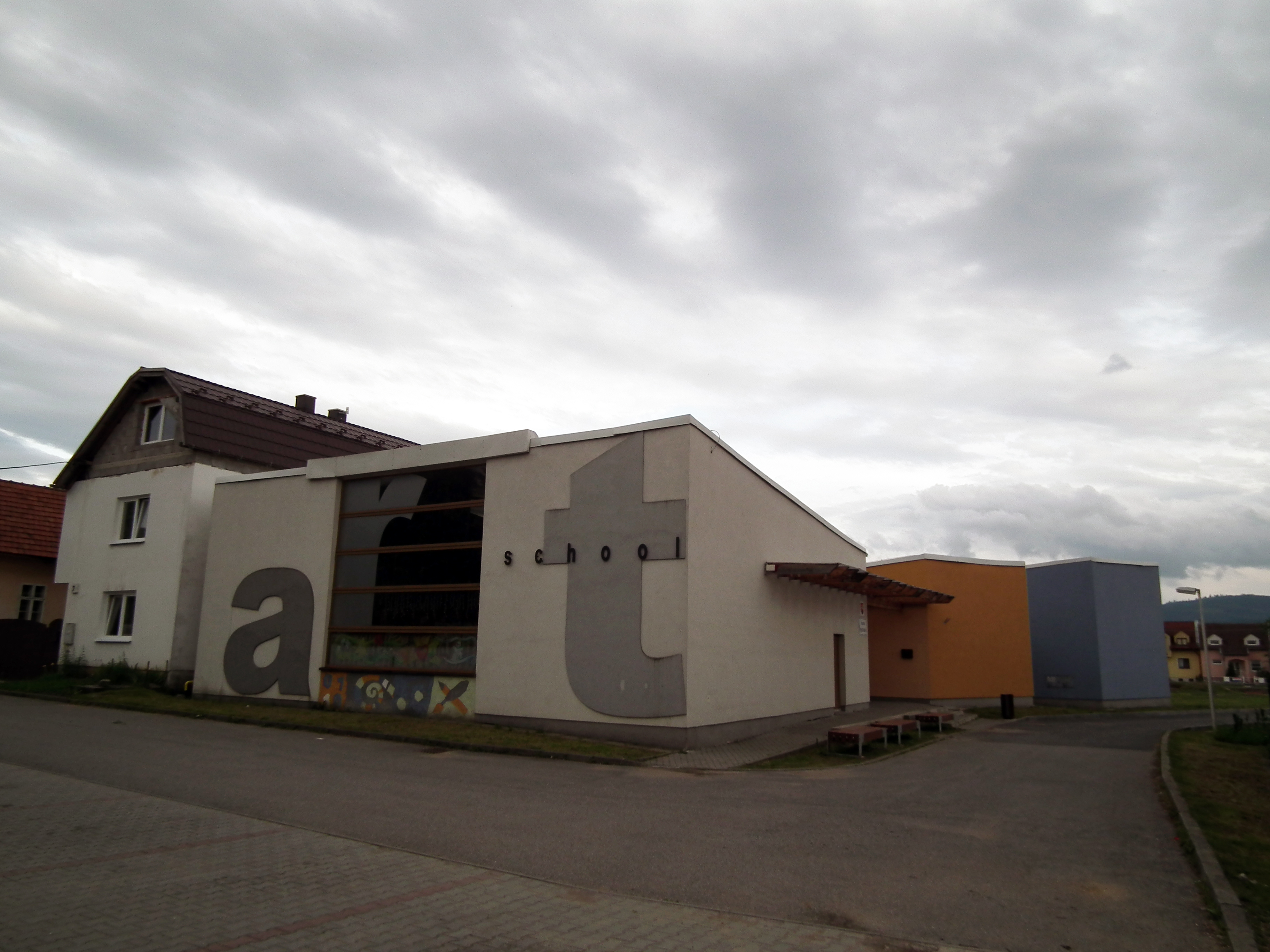 Art School Smižany, Smižany, Slovakia.